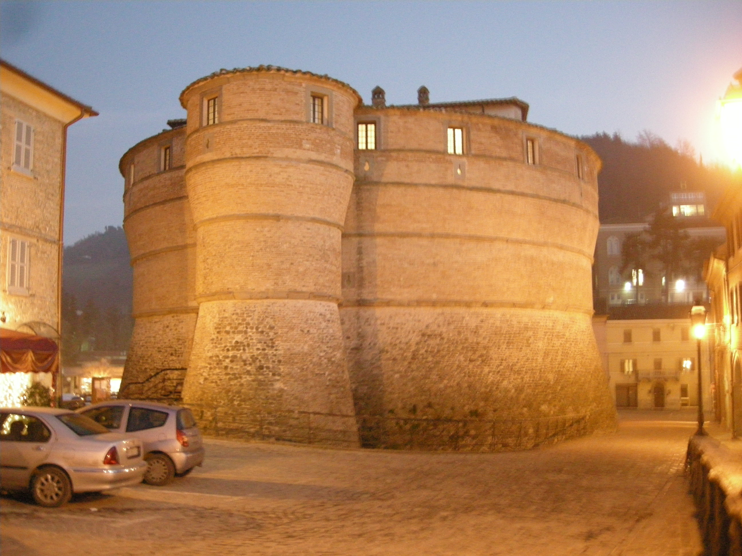 Sassocorvaro, rocca by night